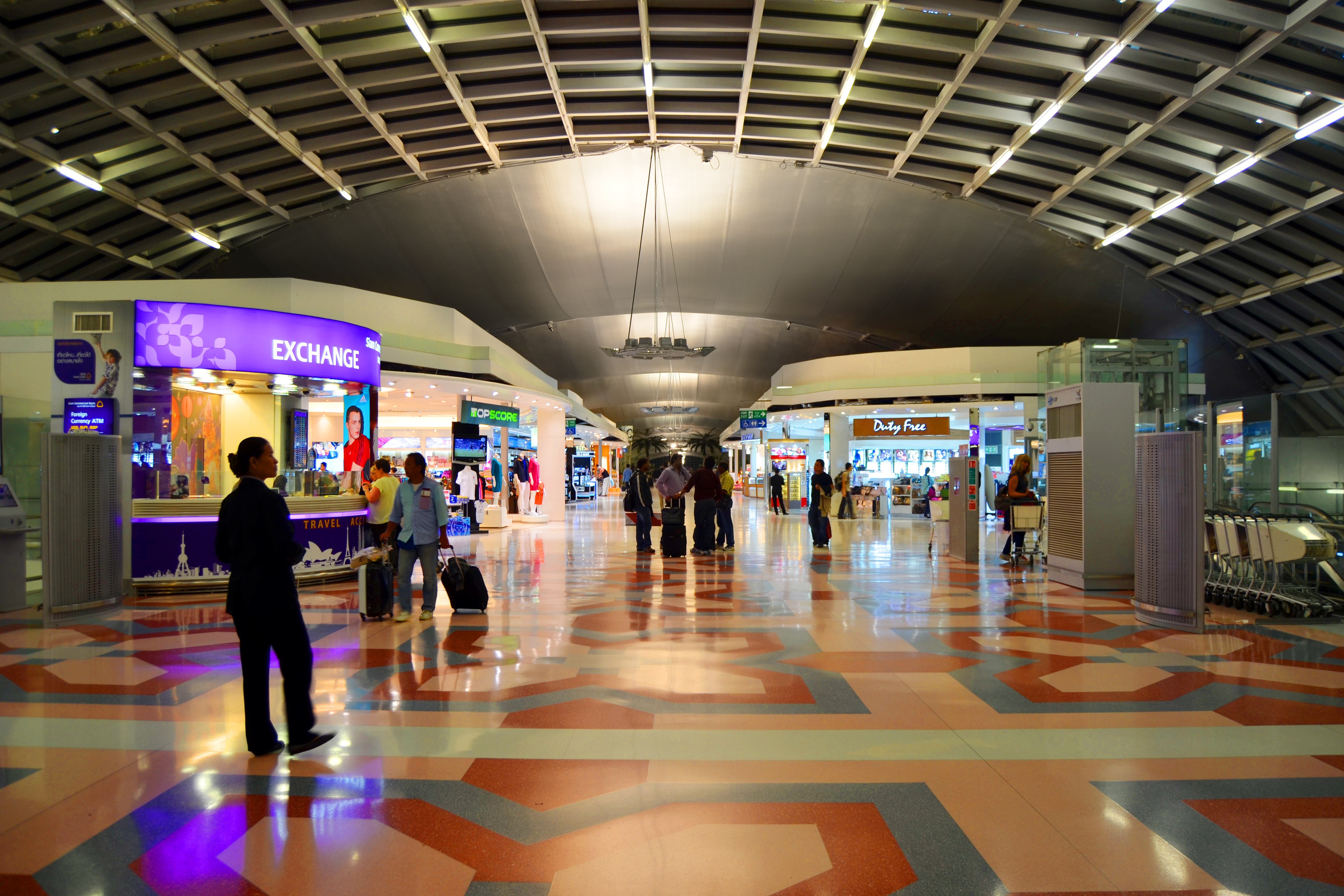 Suvarnabhumi Airport Inside